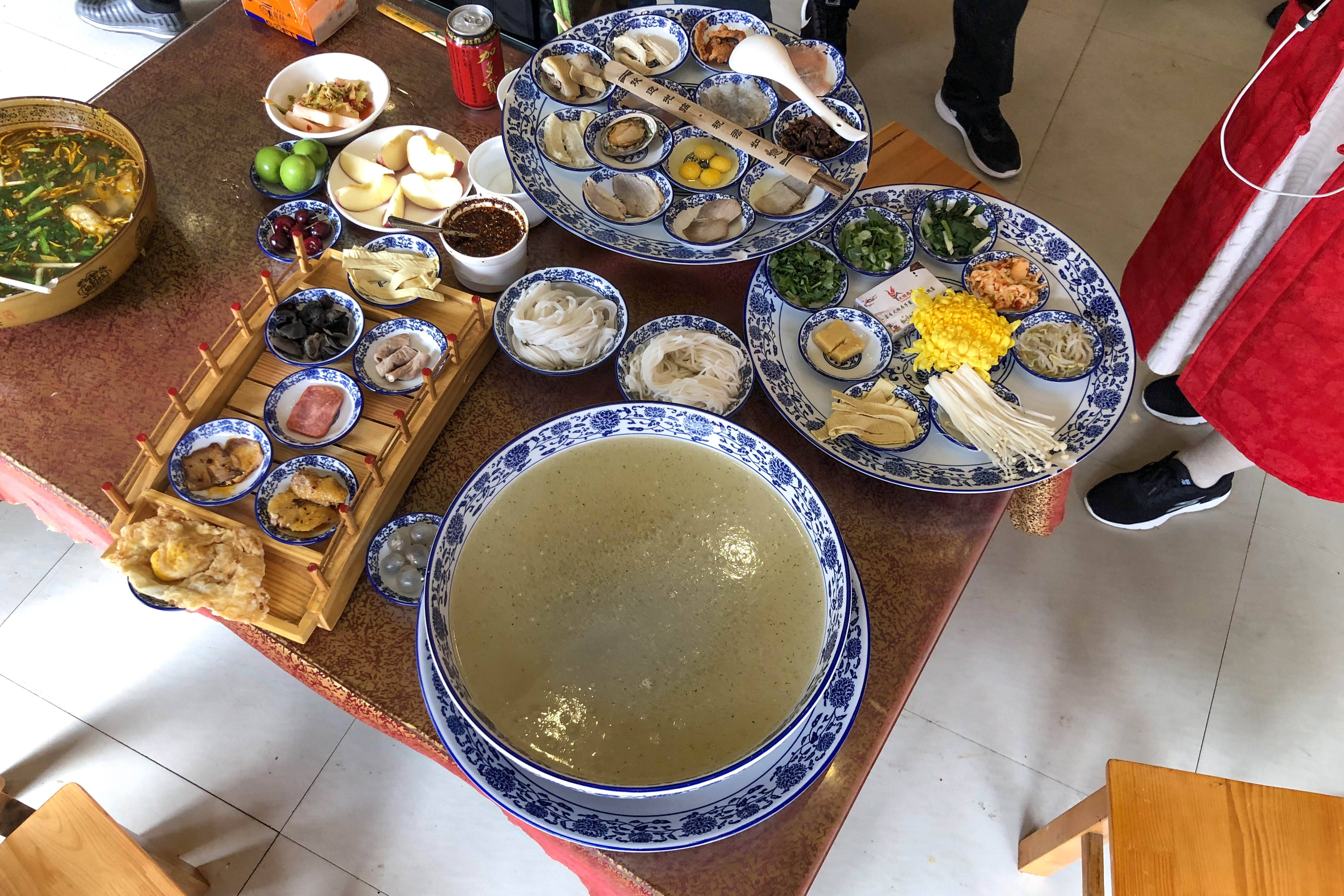 The biggest serving costs CNY 128, even with several plates of fruits for dessert! Maybe these are the most possible ingredients...